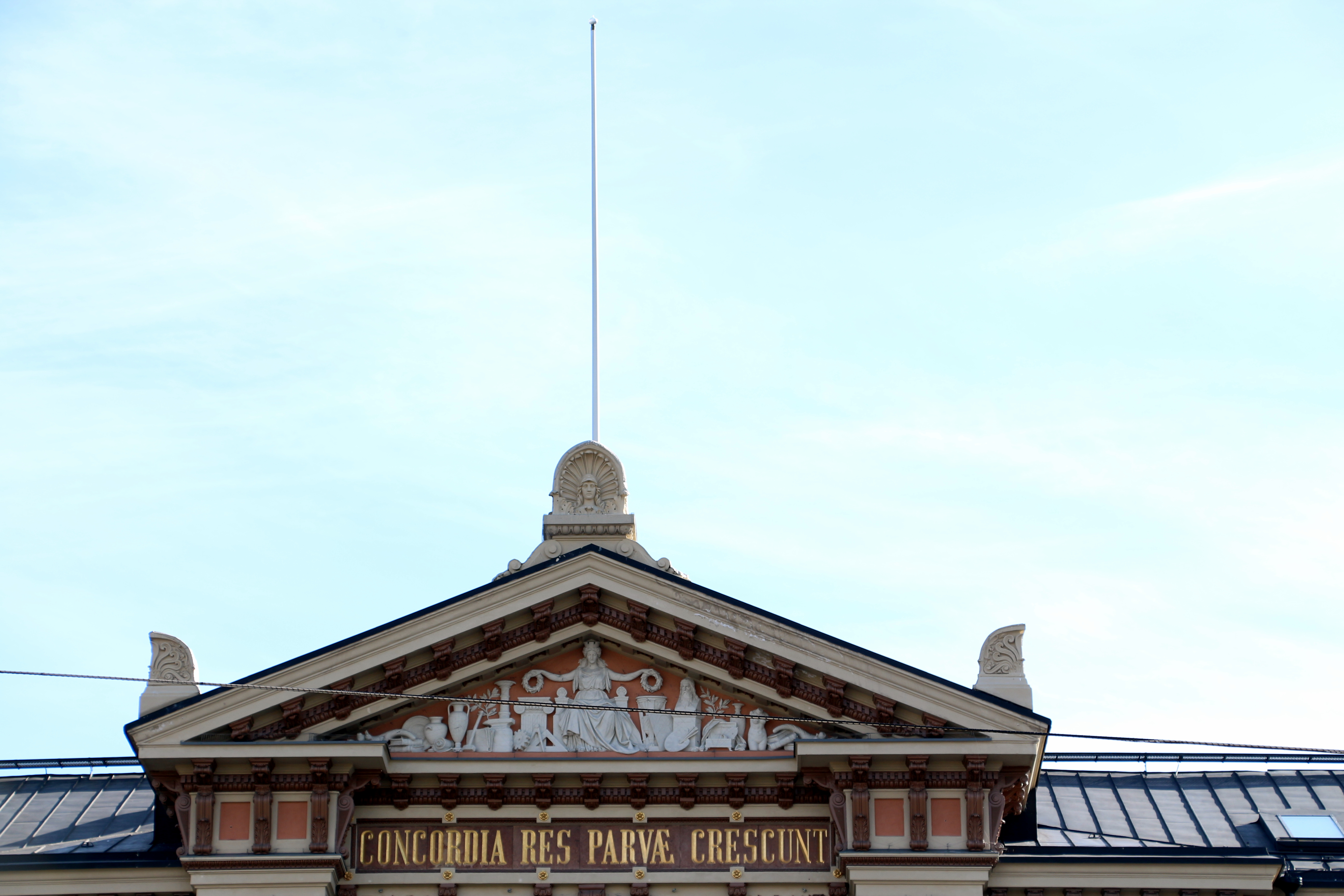 Top of Art Museum in Helsinki